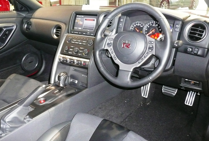 Nissan GT-R interior.